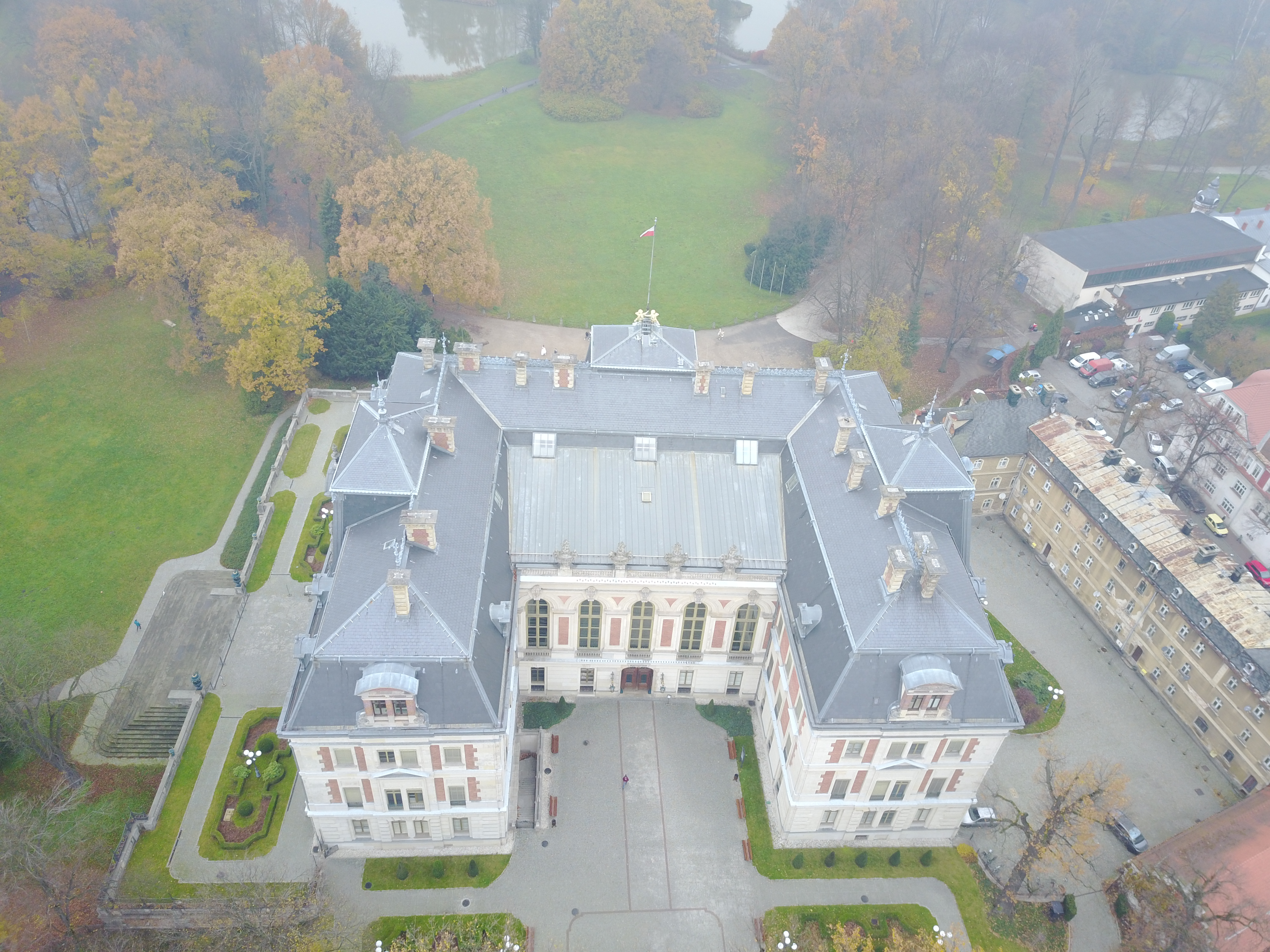 Aerial photographs of Pszczyna Palace